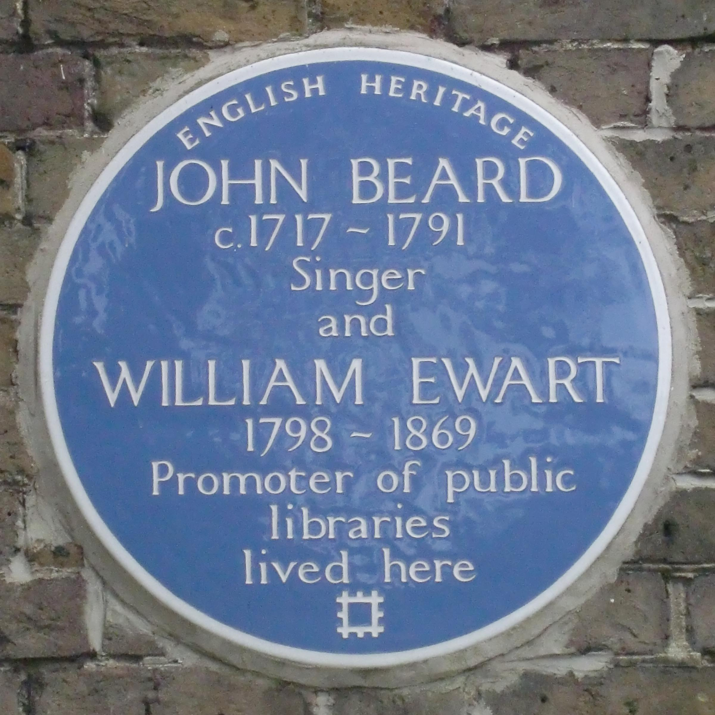 Blue plaque to John Beard and William Ewart - Hampton Library, Hampton, Middx